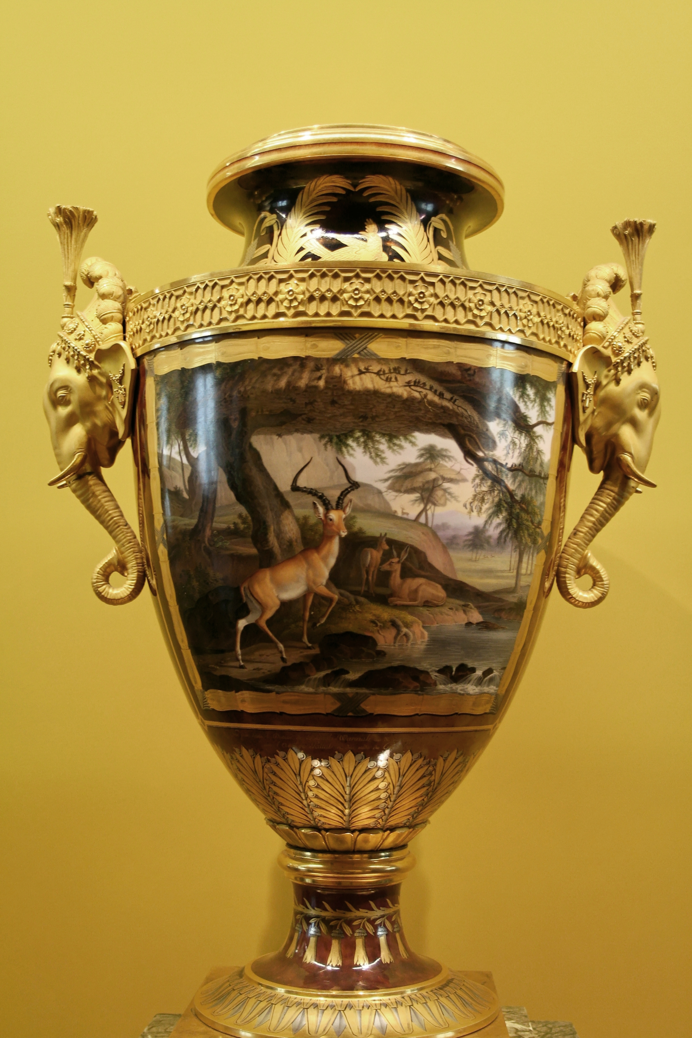 One of a pair of Clodion vases, given by Louis XVIII of France to Monsieur, his brother, future king Charles X. Hard-paste porcelain and gilt bronze, 1817.